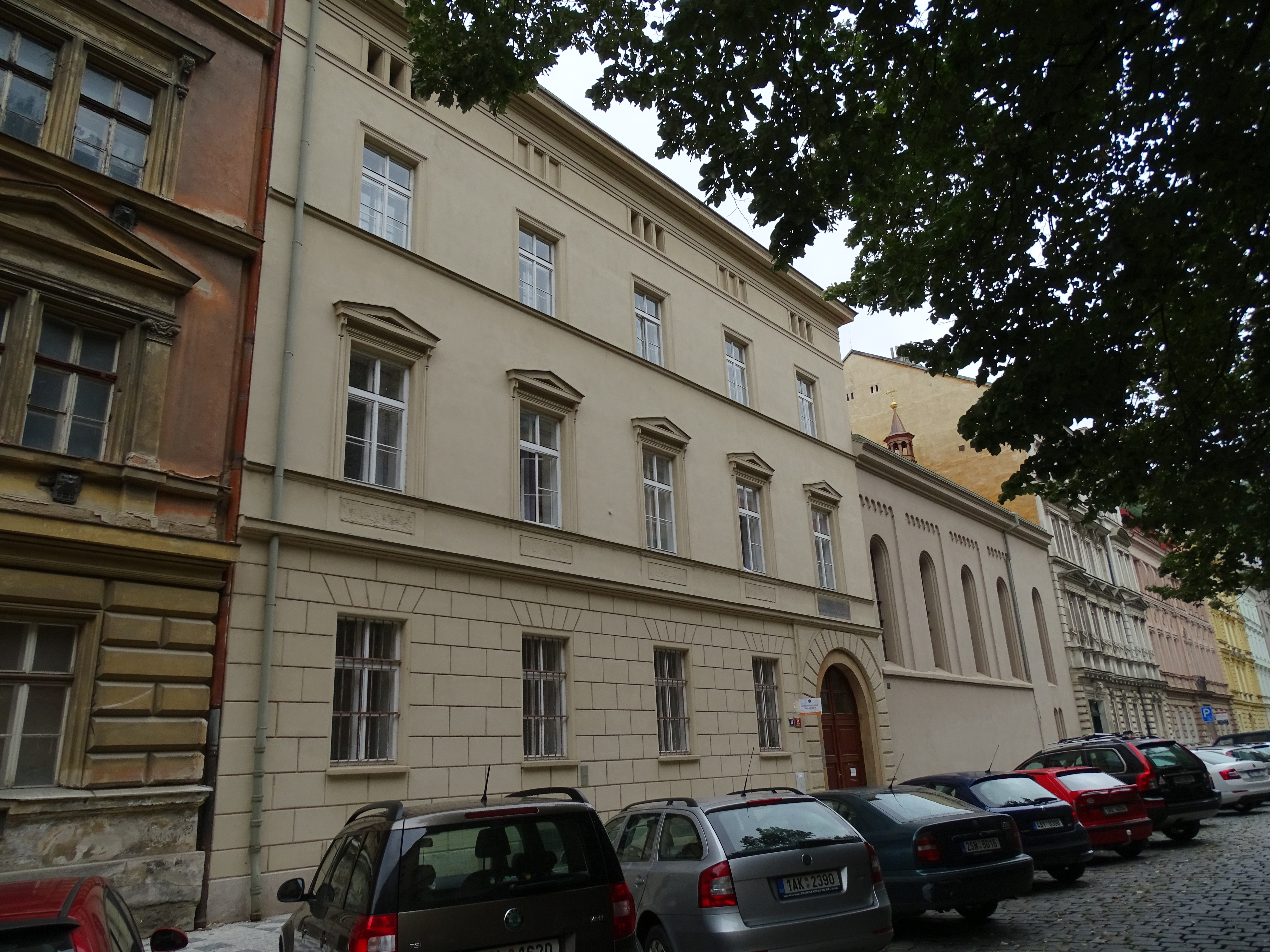 Prague-Karlín, Czech Republic. Vítkova 15/12, a former monastery of Sisters of Mercy of St. Borromeo.